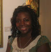 Verna Hart, painter known for her expressionist work focusing on jazz music. Hart was born and raised in Harlem, New York.